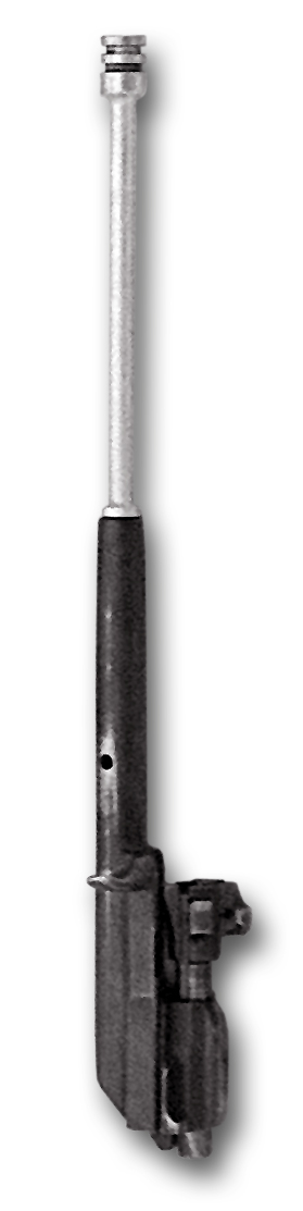 image cropped to show only bot carrier and bolt and gas piston